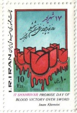 1985 "17 Shahrivar" stamp of Iran